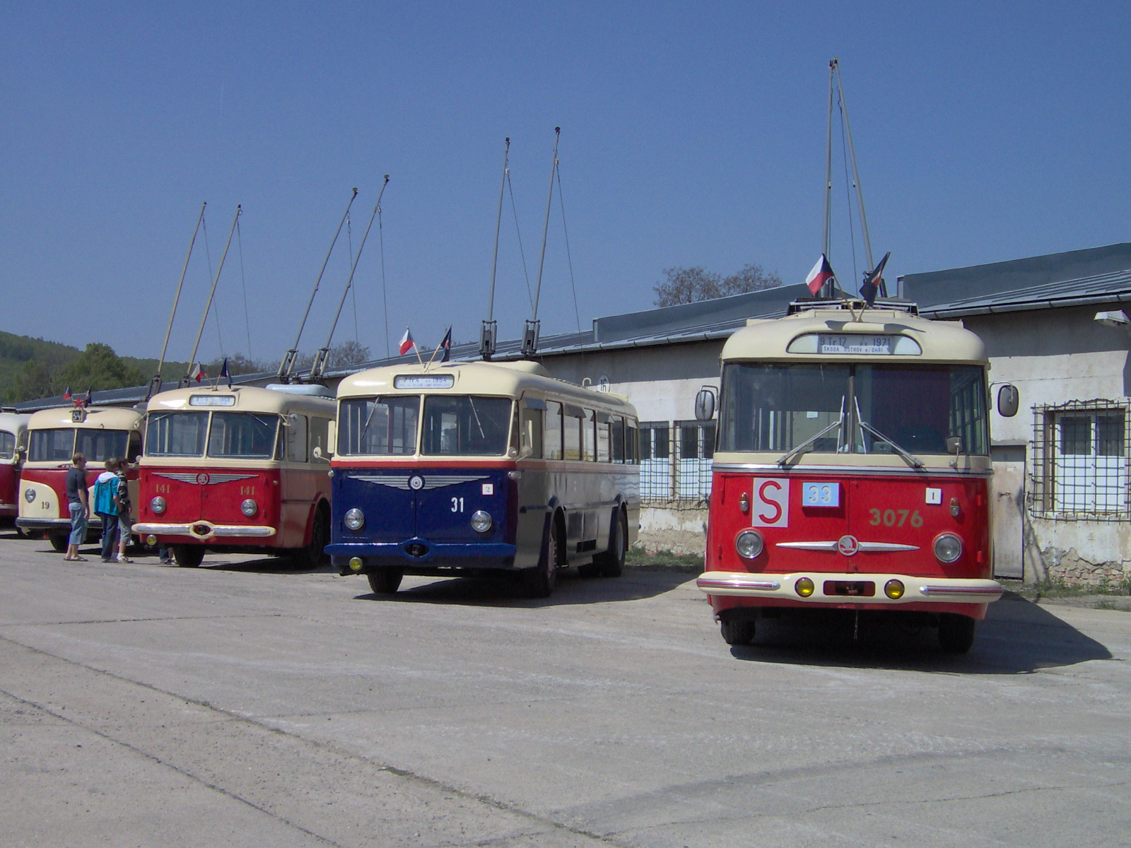 Historical trolleybuses (from left side) Tatra T 400, Škoda 8Tr, Škoda 7Tr and Škoda 9Tr in Brno, Czech Republic